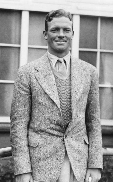 South African cricketer Bob Crisp (1911 - 1994) at Cardiff, where he is playing a match against Glamorgan, June 1935.